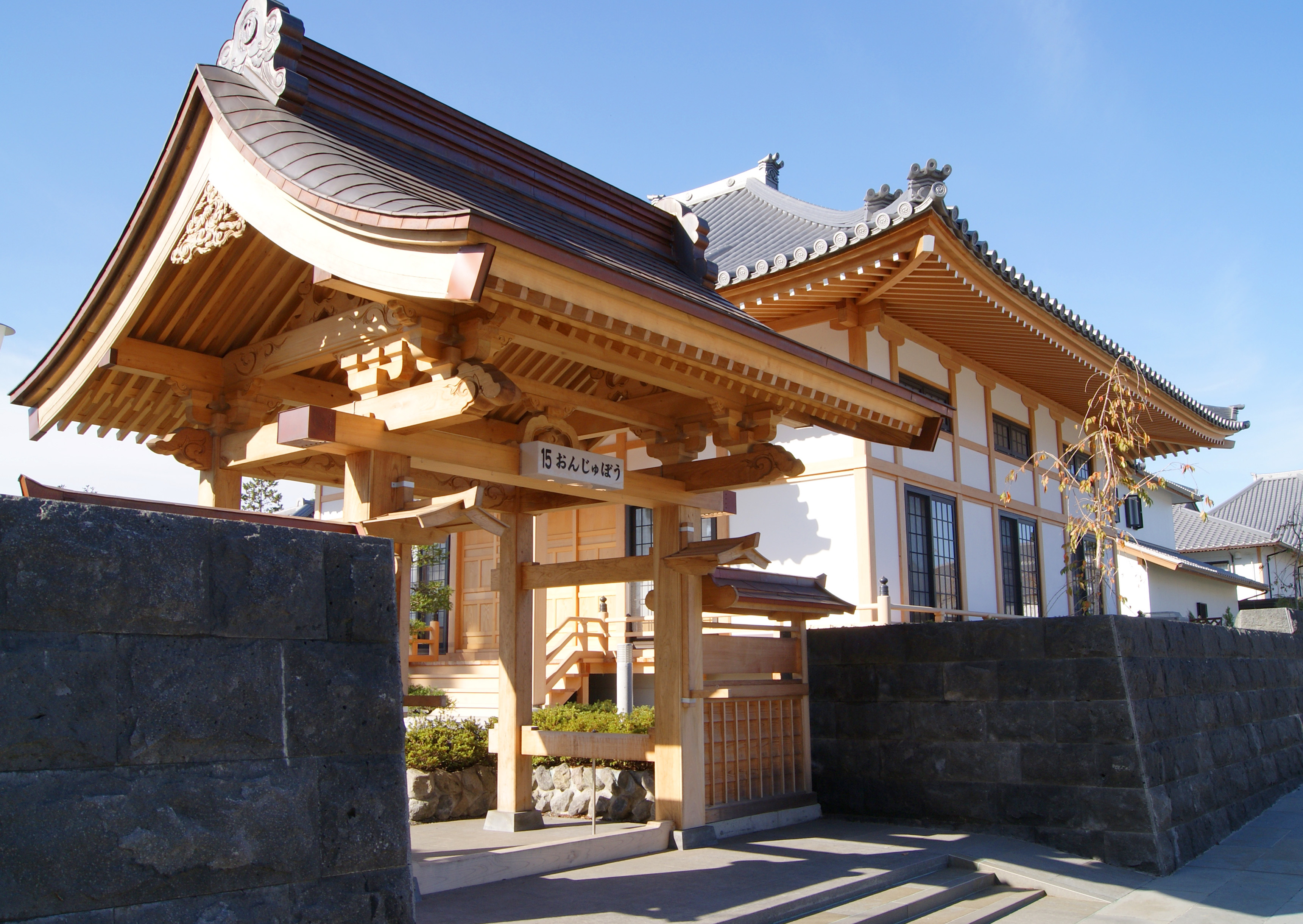 Onjyu-bō of Taiseki-ji.jpg